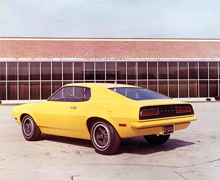 These photos from 1970 are likely ideas for a Pinto update, but don't you think it was leading to the Mustang II?